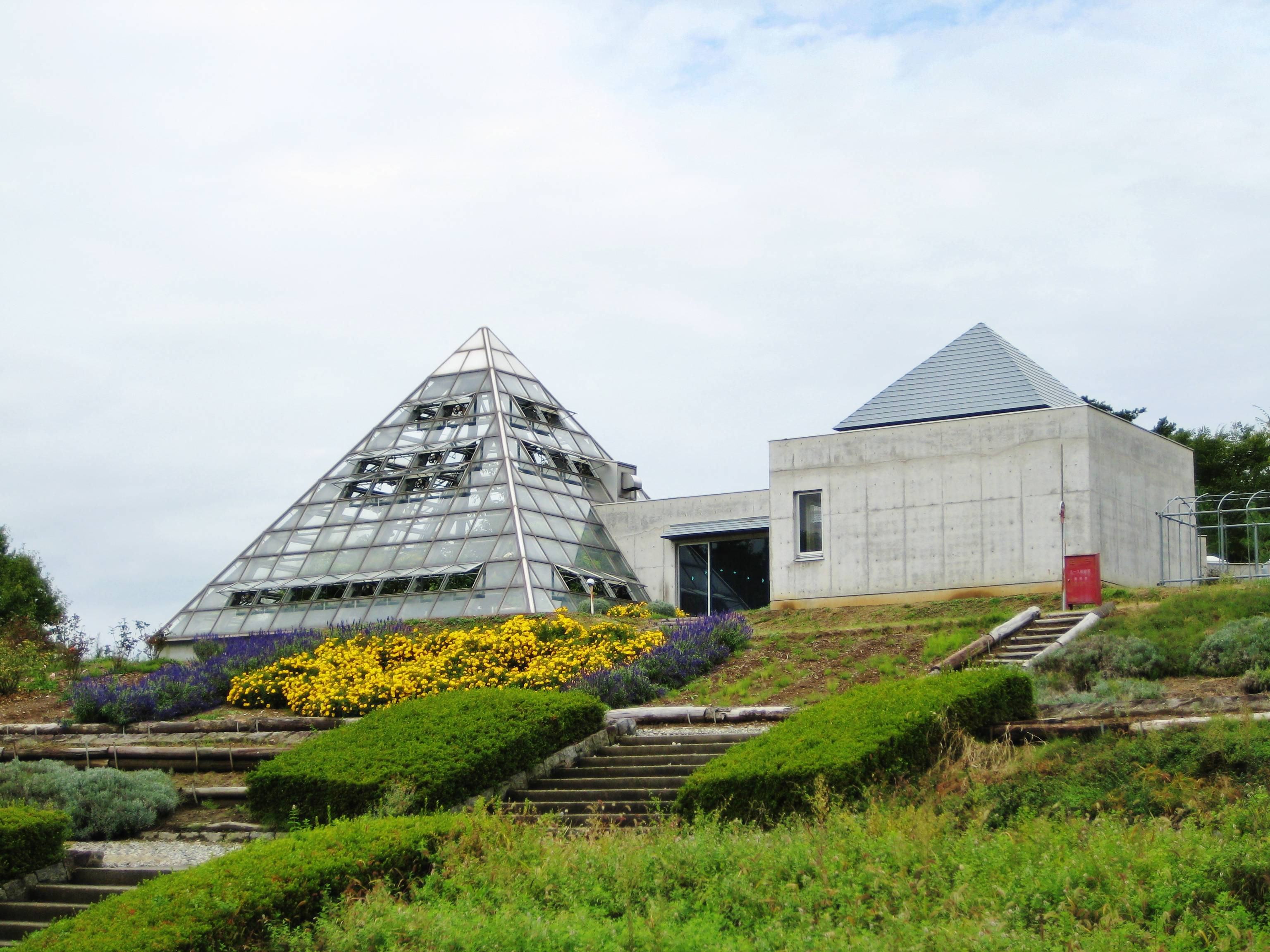 Kitashinano Country Forest and Cultural Park (Nakano, Nagano) Insect Display and Green house.